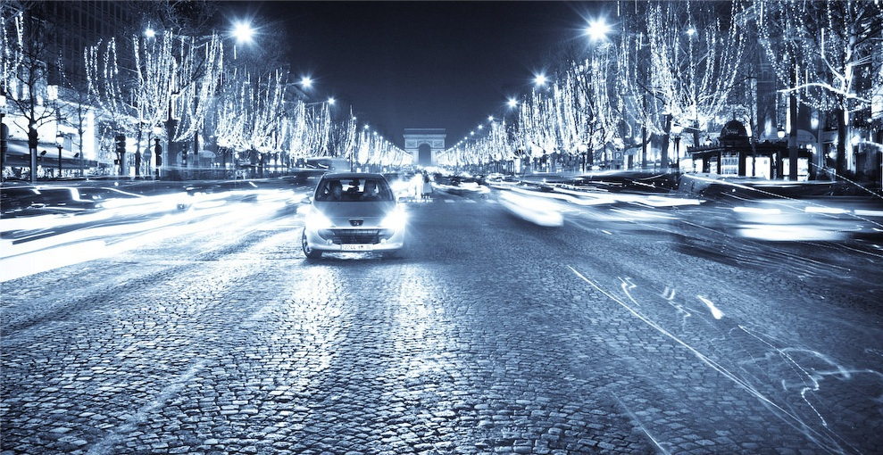 Avenue des Champs-Elysees during Christmas Season.